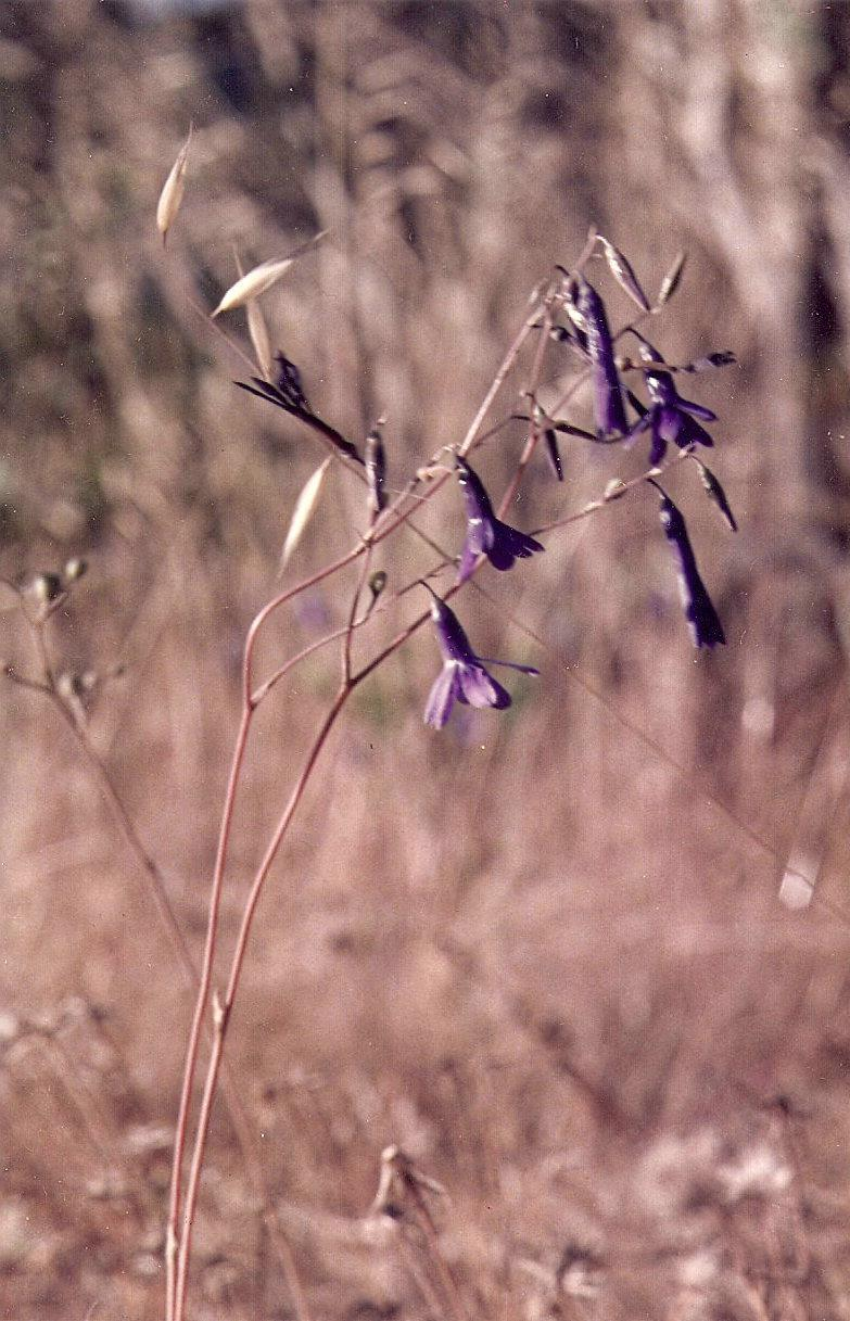 Conanthera trimaculata